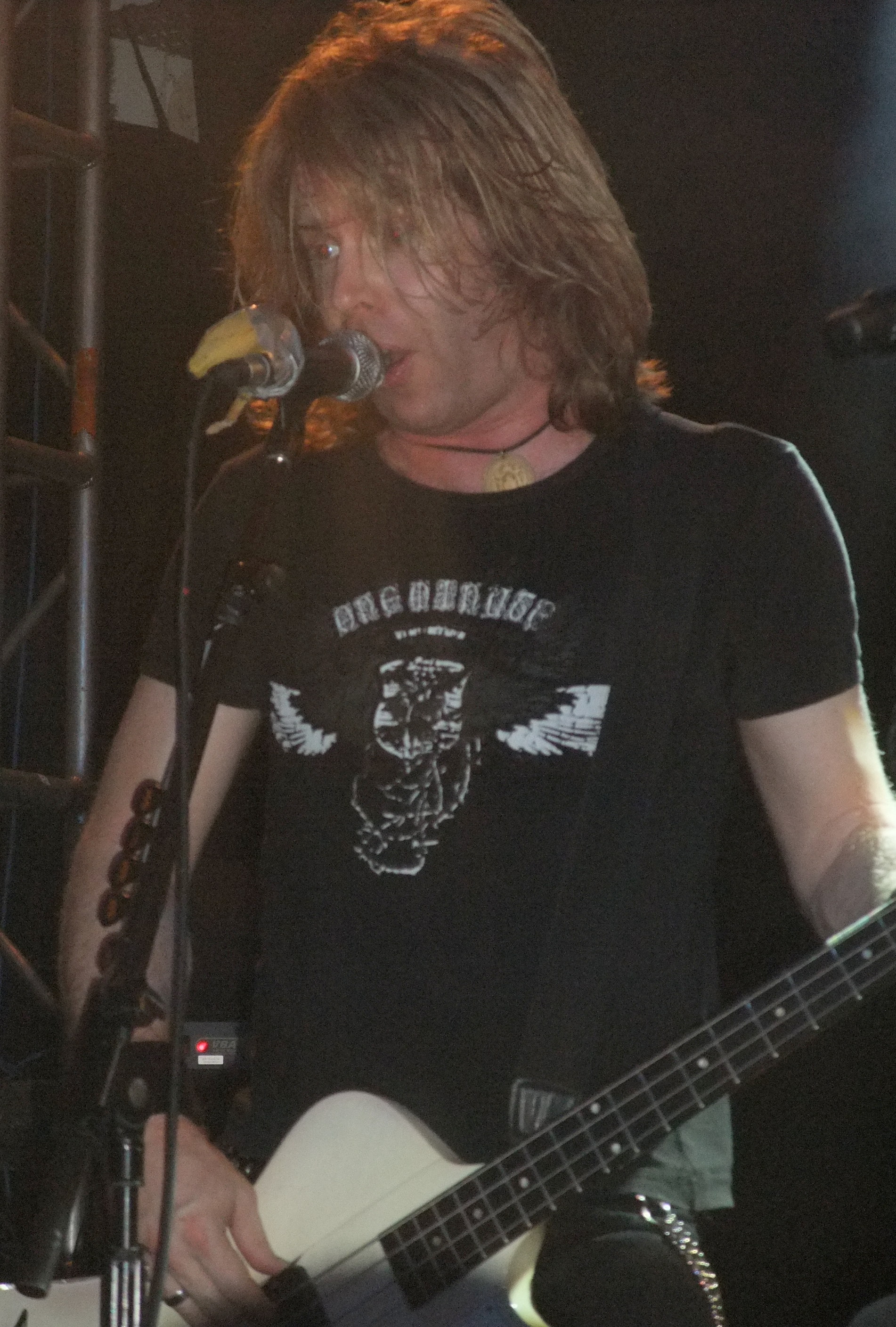 Tobias Exxel performing with Edguy at Islington Academy in London, 20th March 2010